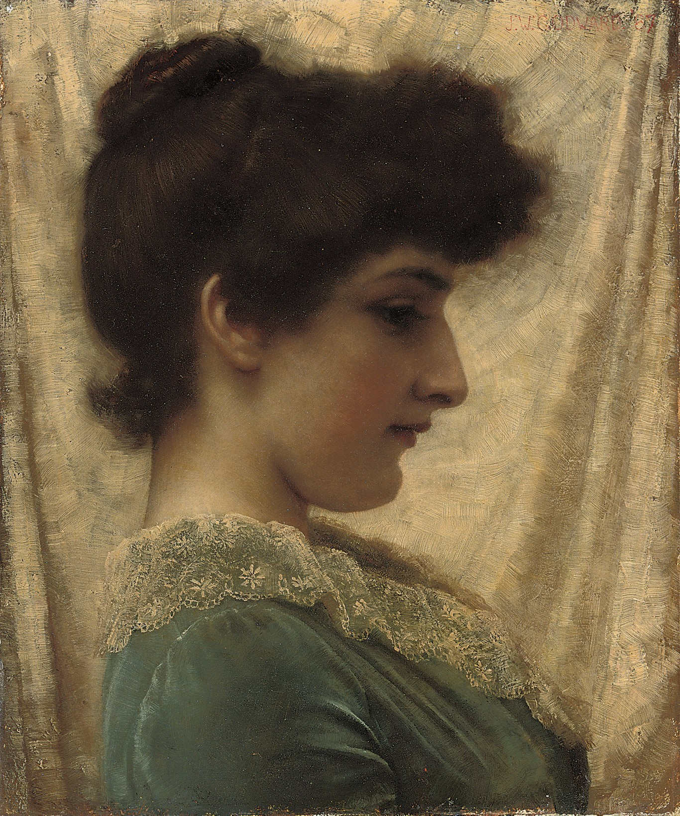 Study of a model, possibly Hetty Pettigrew